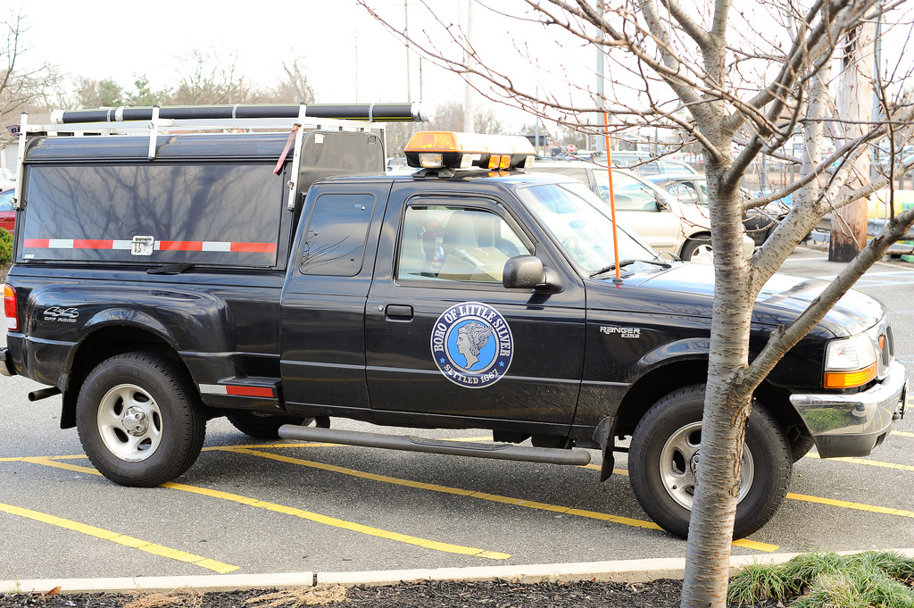 Little Silver boro vehicle